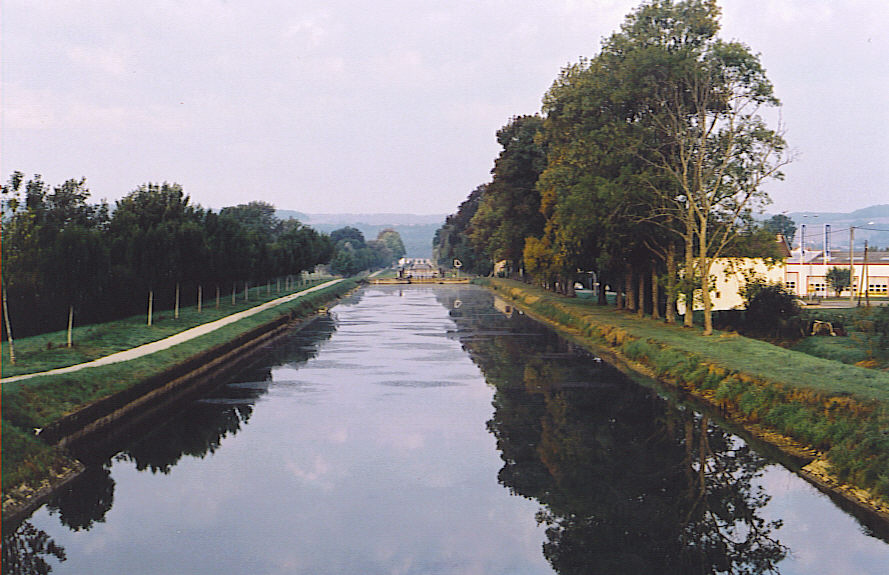 Canal of Burgundy.